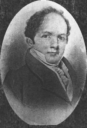 John Hartwell Marable, US Representative from Tennessee